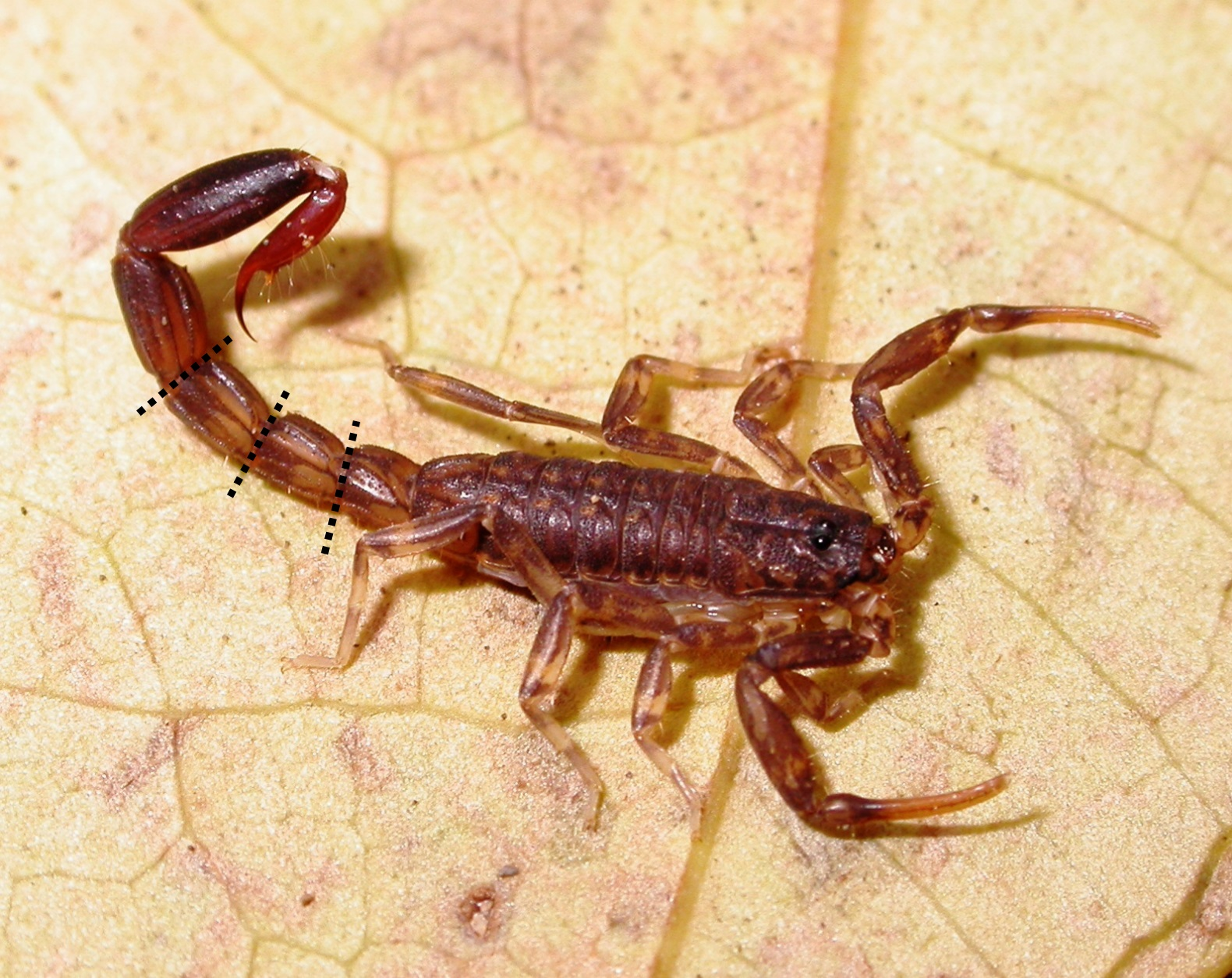 Ananteris balzani Thorell, 1891, adult male from Serra das Araras Ecological Station, Mato Grosso State, Brazil. Dashed lines indicate autotomy cleavage planes between metasomal segments I-IV.